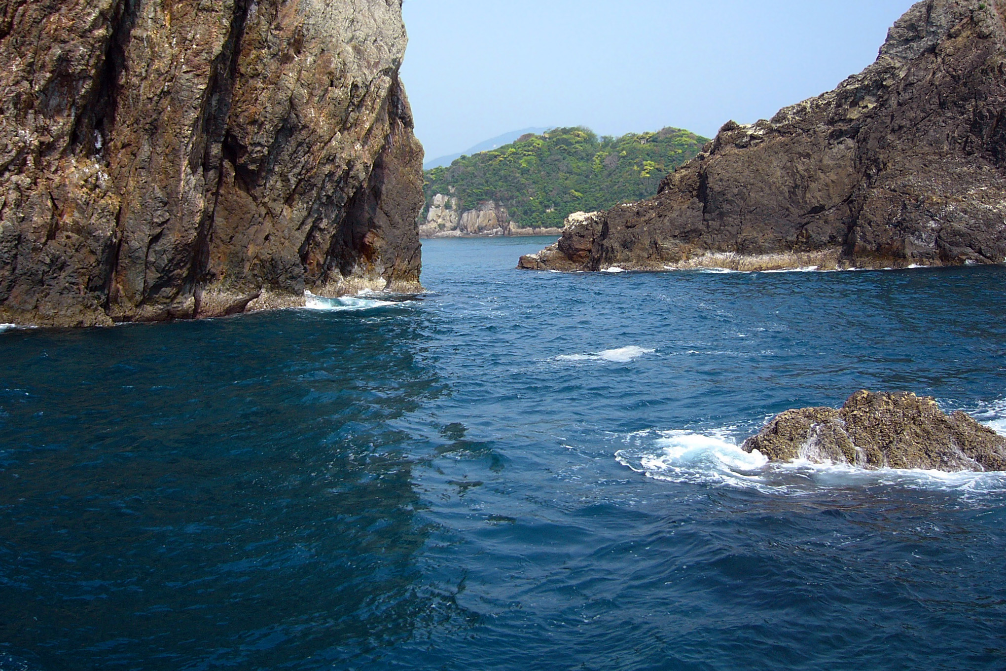 Ki-no-Matsushima, Nachikatsuura, Wakayama prefecture, Japan